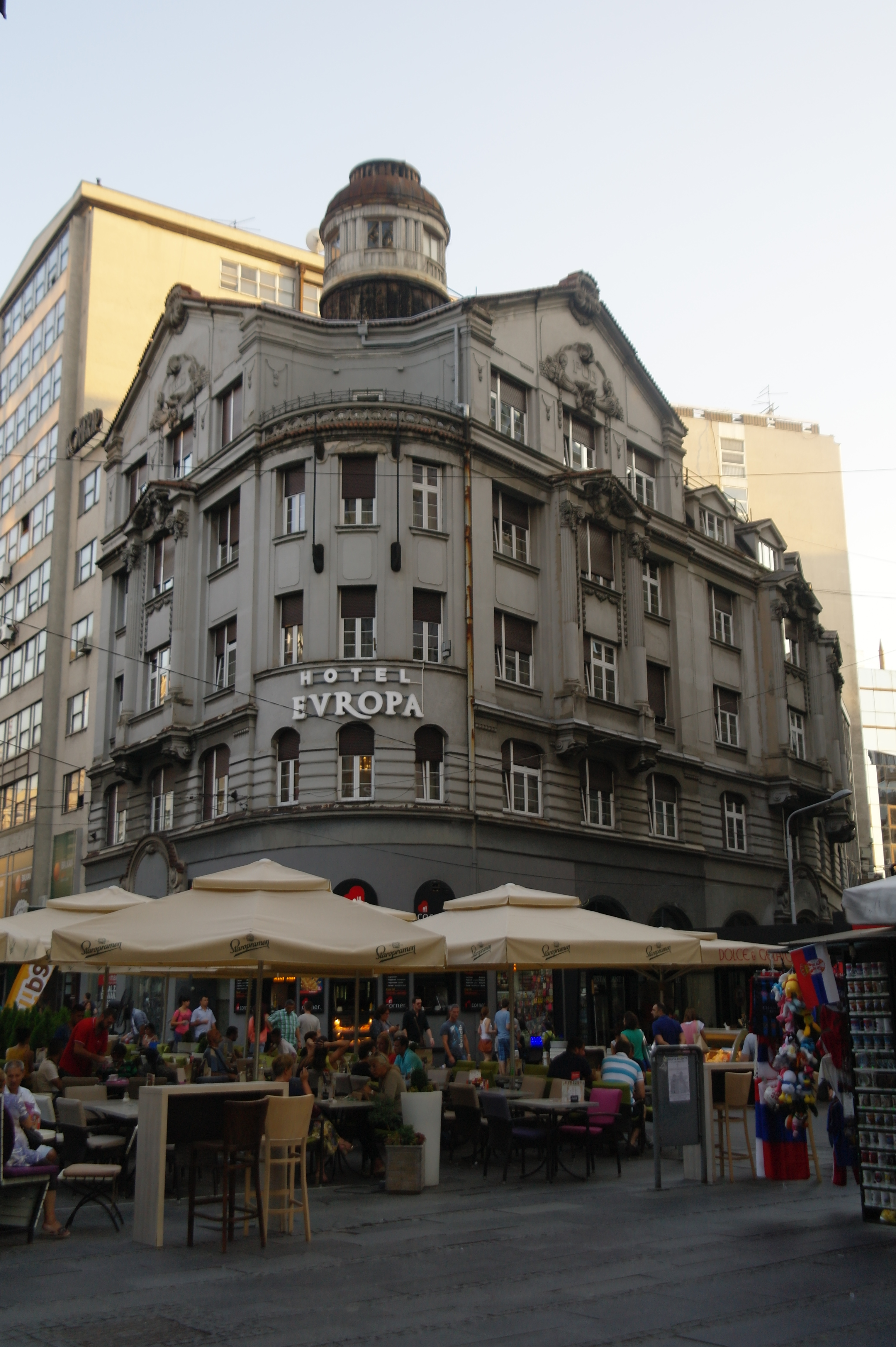 Hotel Evropa in Belgrade